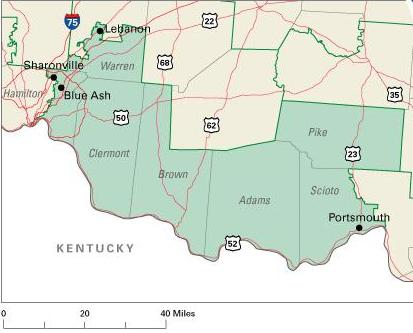 A map of Ohio's second Congressional District from the 109th US Congress